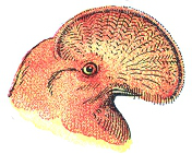 Drawing of the head of a Guianan Cock-of-the-rock (Rupicola rupicola)